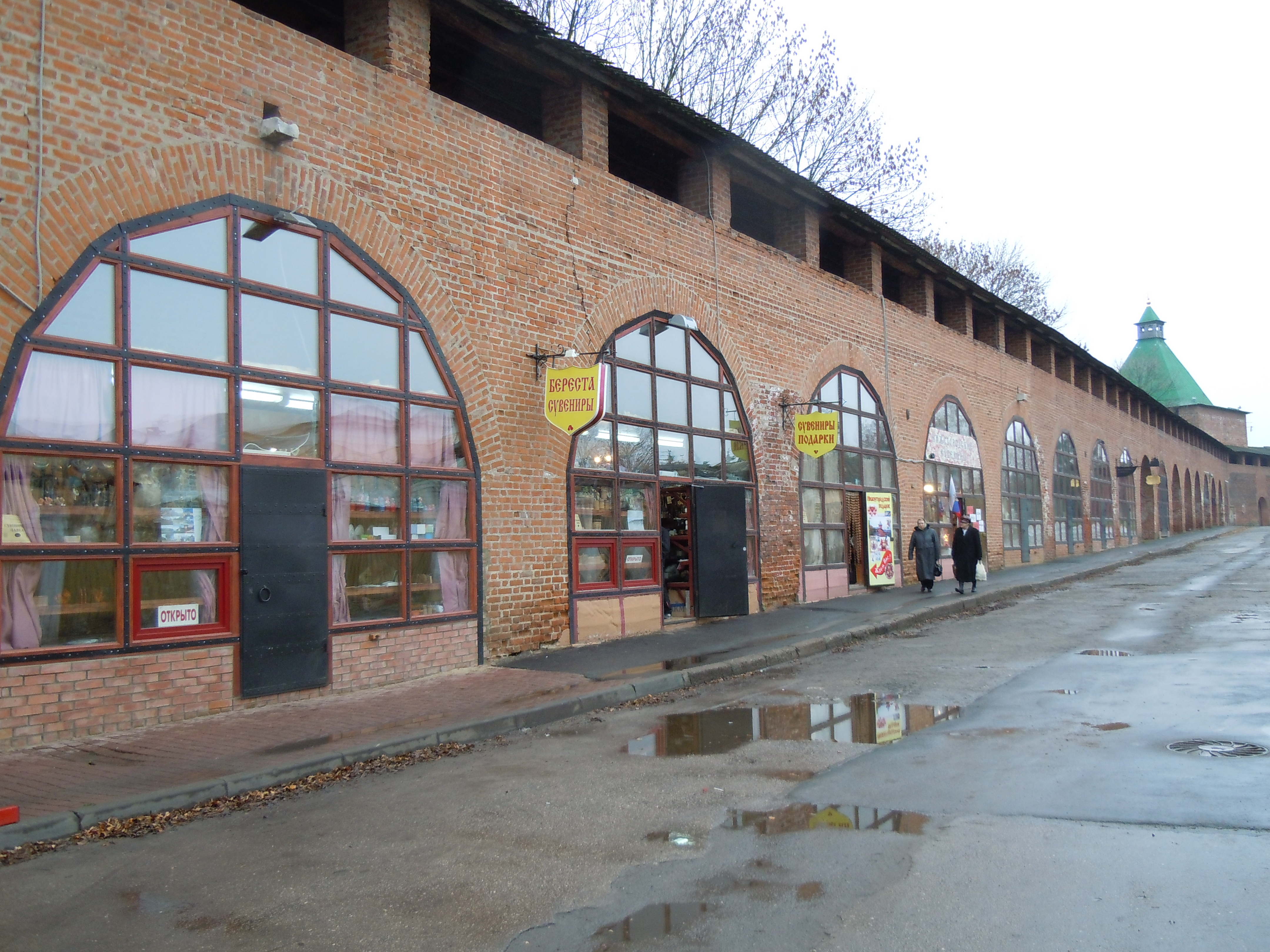 Defensive_wall_of_Nizhny_Novgorod_Kremlin